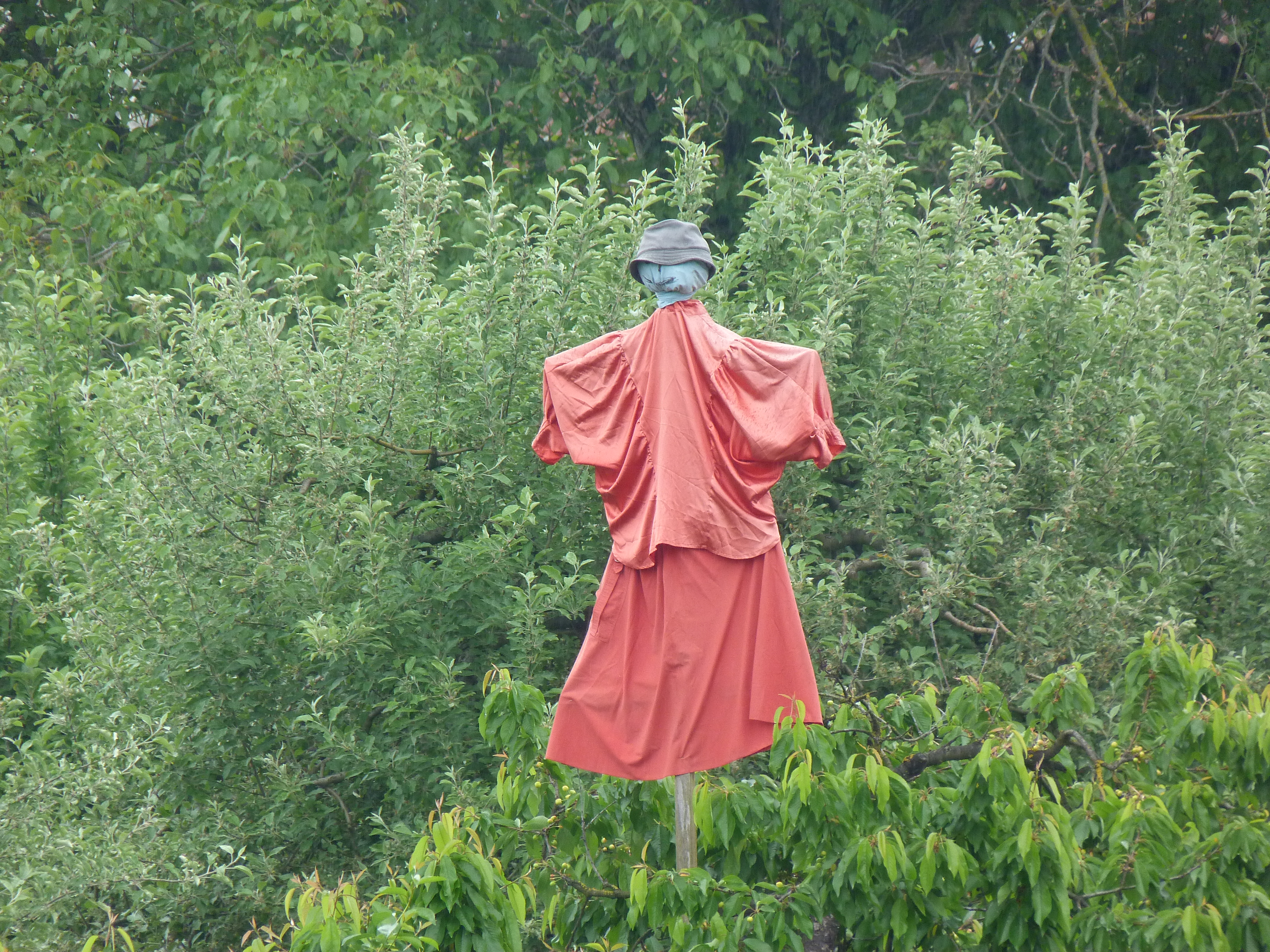 Live on the 15th of May, 2013. Gergelyiugornya (Vásárosnamény), Hungary, Central Europe. Scarecrow ©© Derzsi Elekes Andor, Budapest, 2013, You are authorised to use this vid under Creative Commons – even for commercial, for profit - purposes. The vid must be attributed to Derzsi Elekes Andor. All of the photos and vids in the Metapolisz DVD line are under Creative Commons and can be used even for commercial – for profit – purposes. Recommended Citation Derzsi Elekes Andor: Metapolisz DVD line Sources: szamostura.hu, vasarosnameny.hu, Madárijesztő A felvételek 2013. Május 15 –én szerdán készültek Gergeilyugornyán (Vásárosnamény közigazgatási területe). Beregi Múzeum. 686 –os km –kő.(851) A Szamos és a Tisza összefolyása. (84,87,96,97,98,904) Vásárosnamény II. Rákóczi Ferenc híd (003) Vasúti pályaudvar (011), Autóbusz pályaudvar (013) Naplemente Kisújszálláson (41-91) Források: szamostura.hu, vasarosnameny.hu Conflux of the Tisza and Szamos rivers - 2013